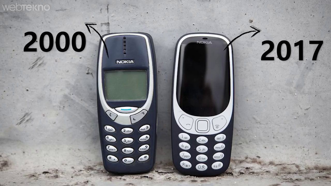 Nokia 3310